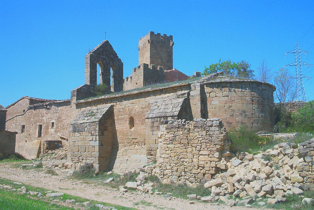 Church of Les Sitges Castle. XII-XV centuries